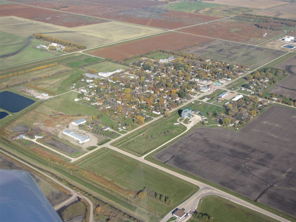 Ariel Shot of Gretna taken in the Fall of 2010. Taken looking North showing the Canadian Customs of the Gretna situated U.S. - Canadian Border crossing at the bottom (South) of the photo.